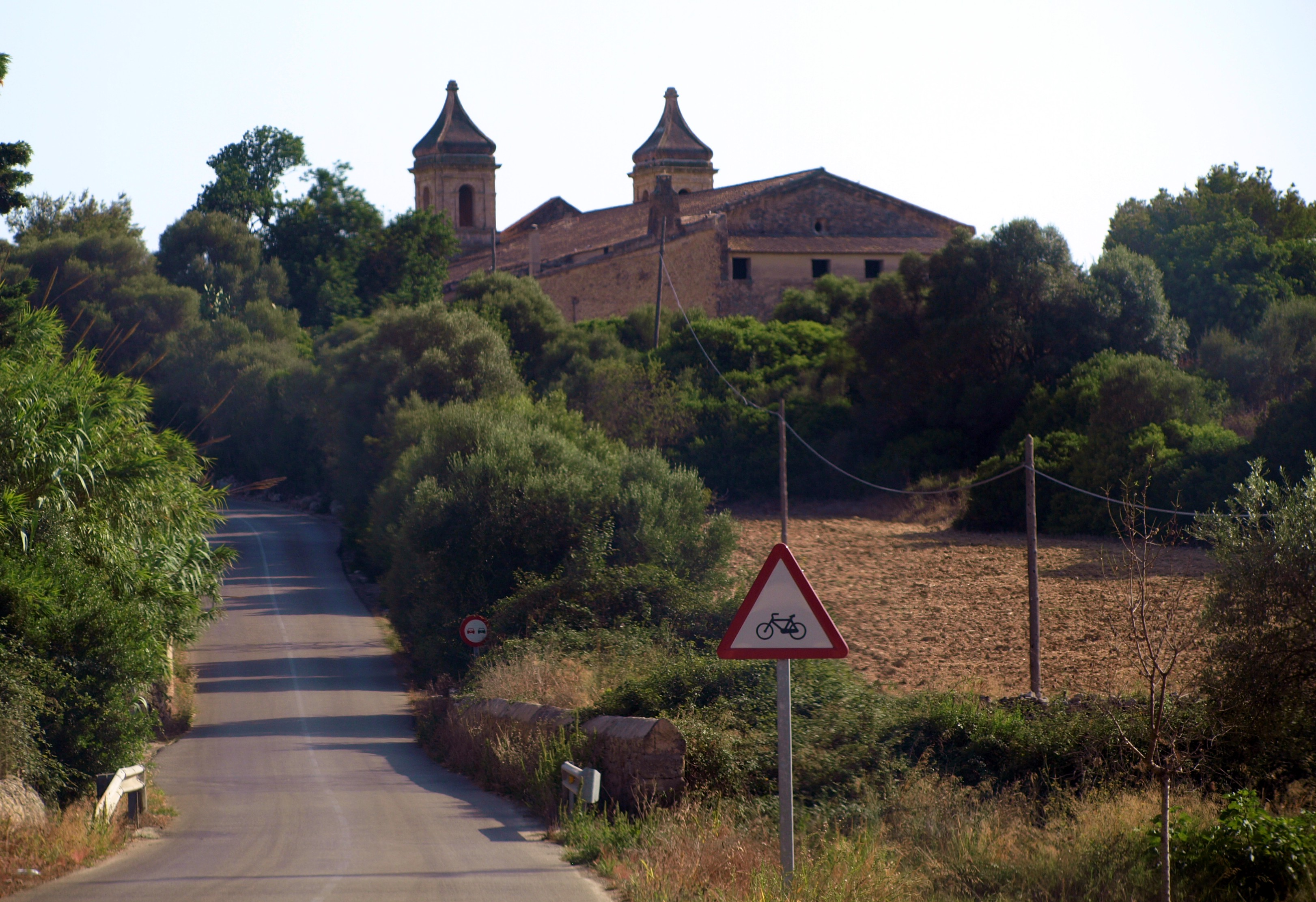 Sant Marçal Church, Sa CabanetaMarratxí